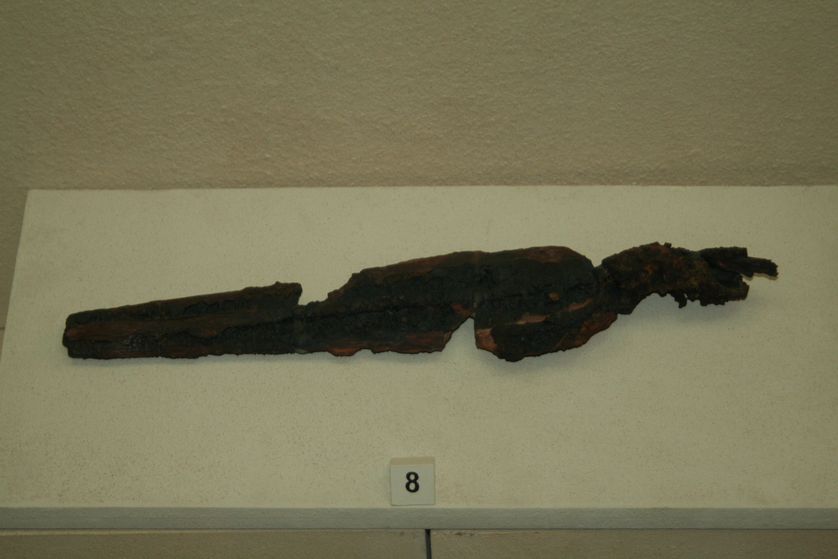 Bronze scabbard of dagger from Khachbulag